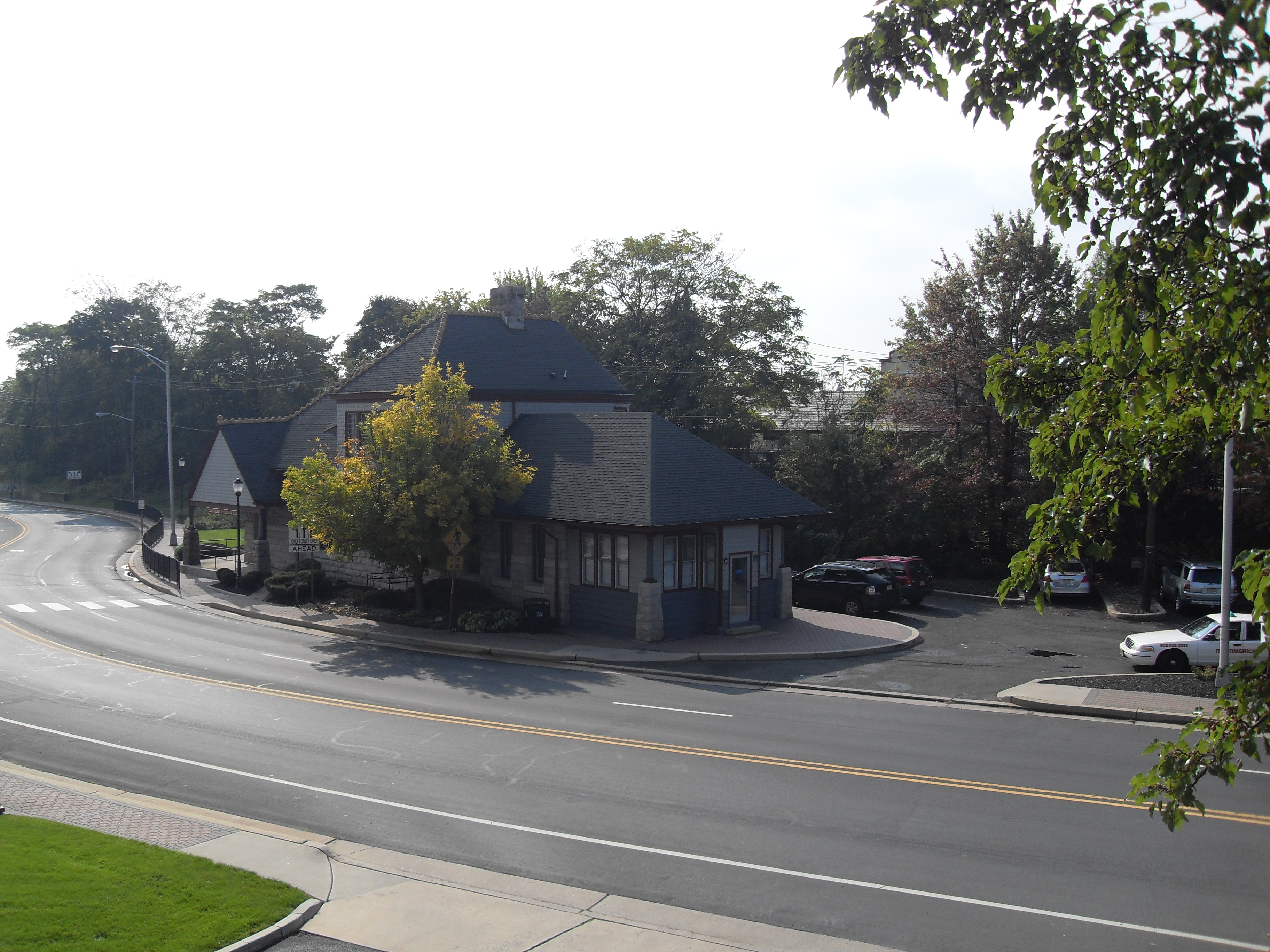 historic Somerville, NJ trainstation